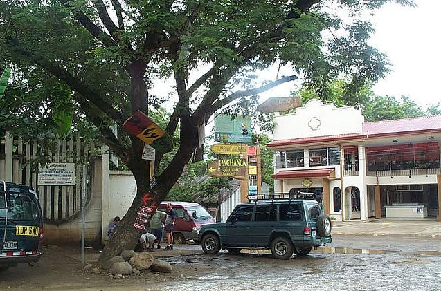 A street in Tamarindo city, Guanacaste, Costa Rica.